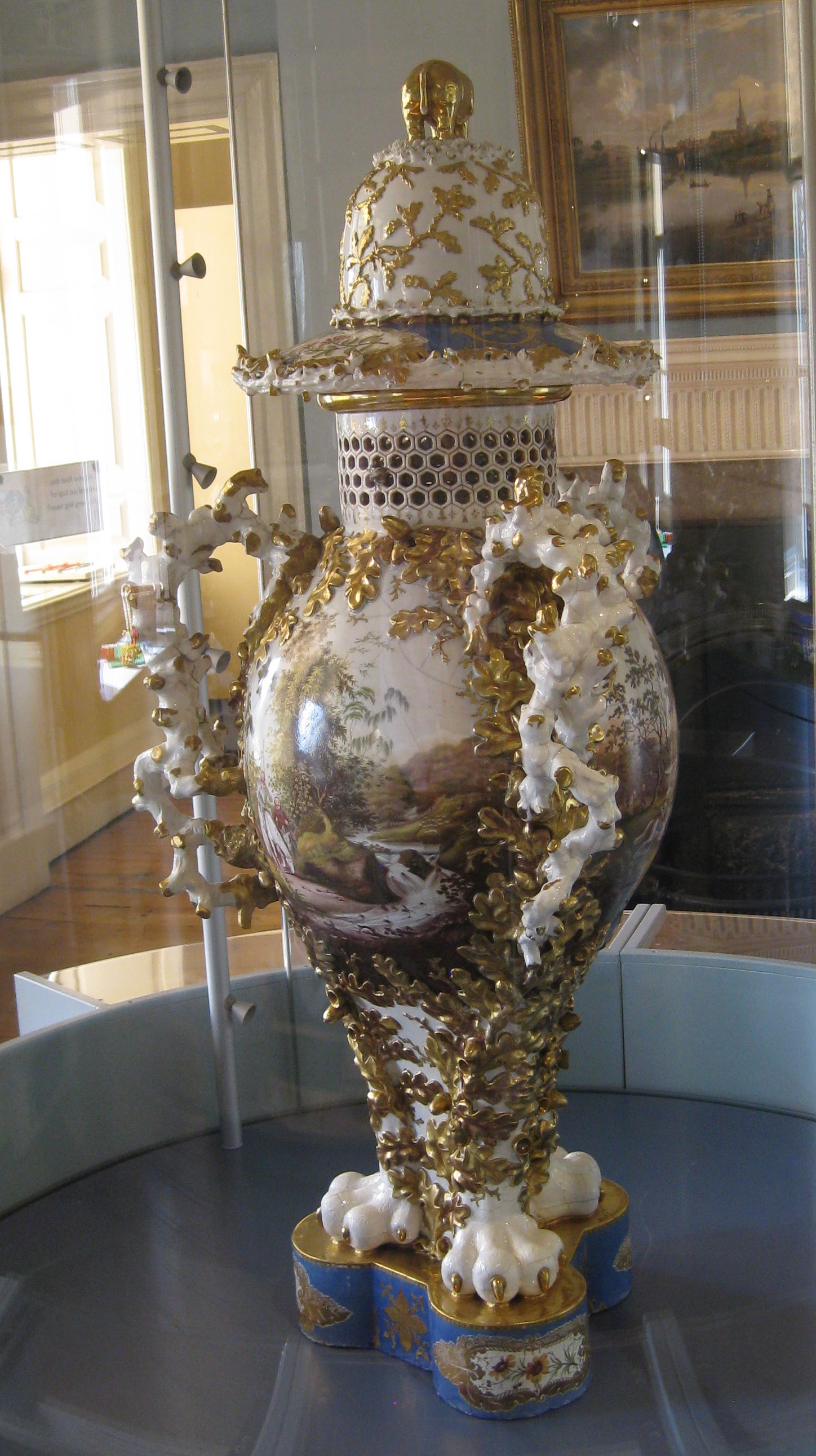 Rhinoceros vase, made at the Rockingham pottery works near Swinton in 1826